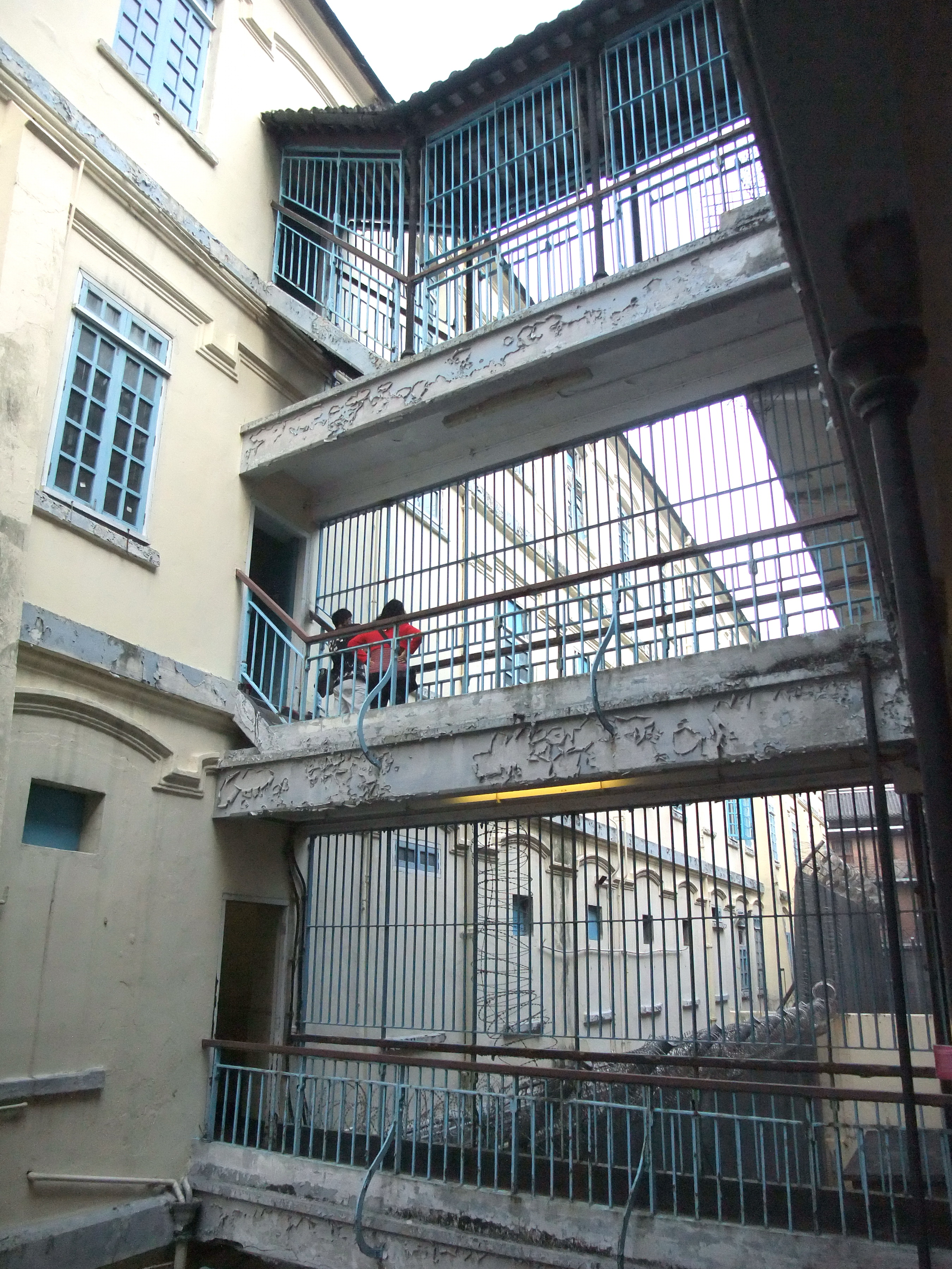 Bridge between the back of the Central Police Station Barrack Block (left) and Victoria Prison.